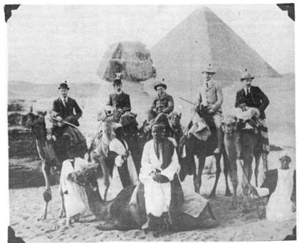 from left to right: Winston Spencer Churchill, Judd Dunning Blick, John Charles Blick, Frederick Russell Burnham, and the Earl of Kent. Egypt.